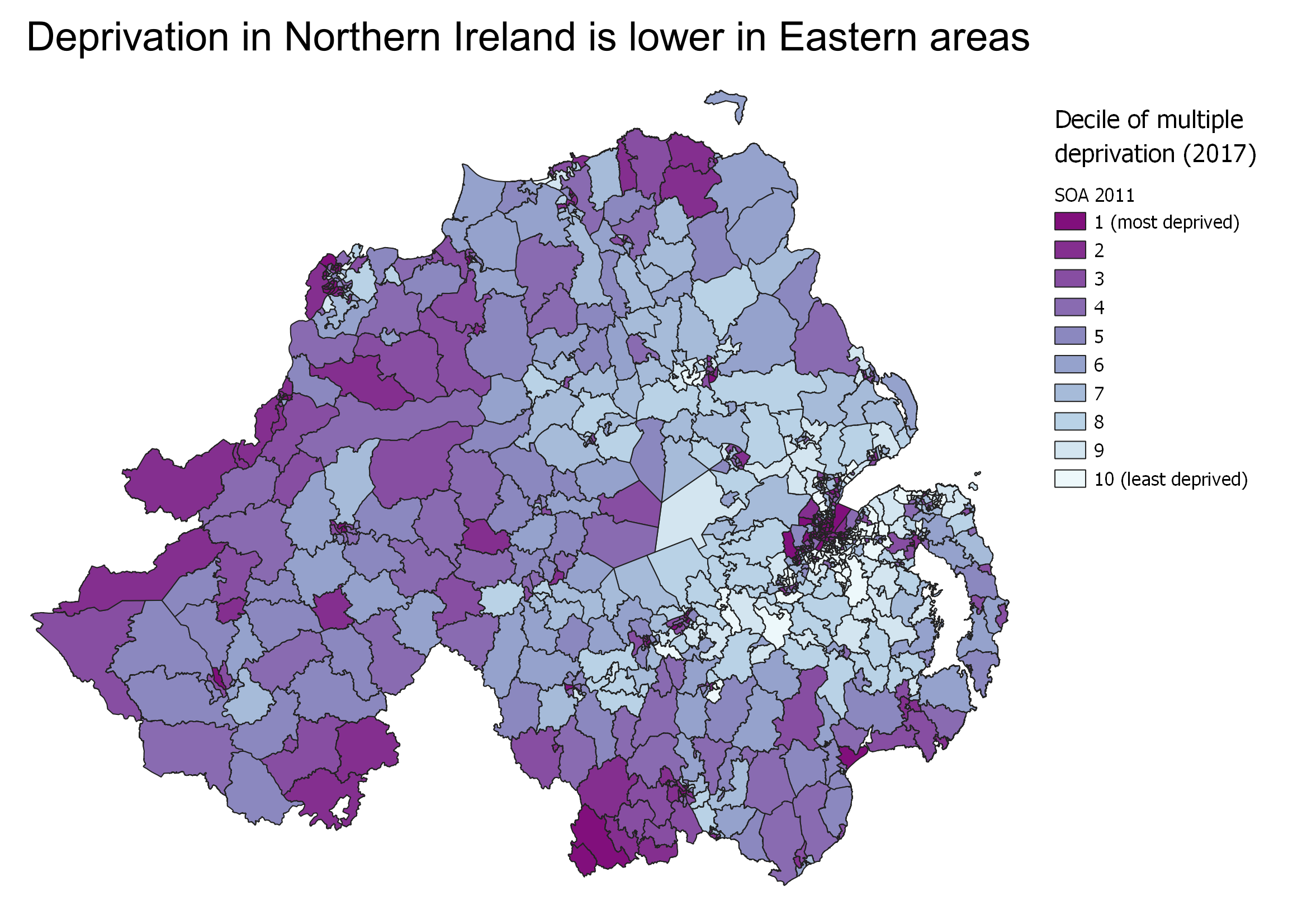 Map of multiple deprivation decile by super output area of Northern Ireland using the 2017 NIMDM17 release.